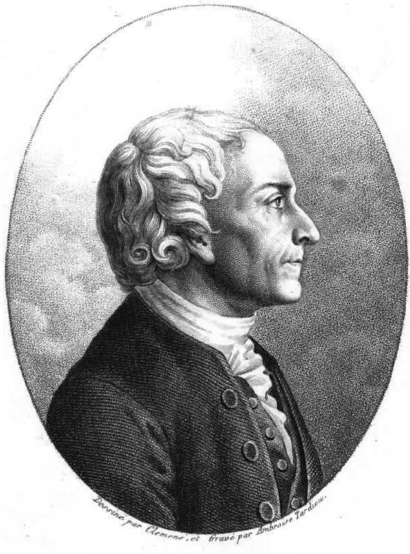 Abraham Trembley (1710-1784) , from here